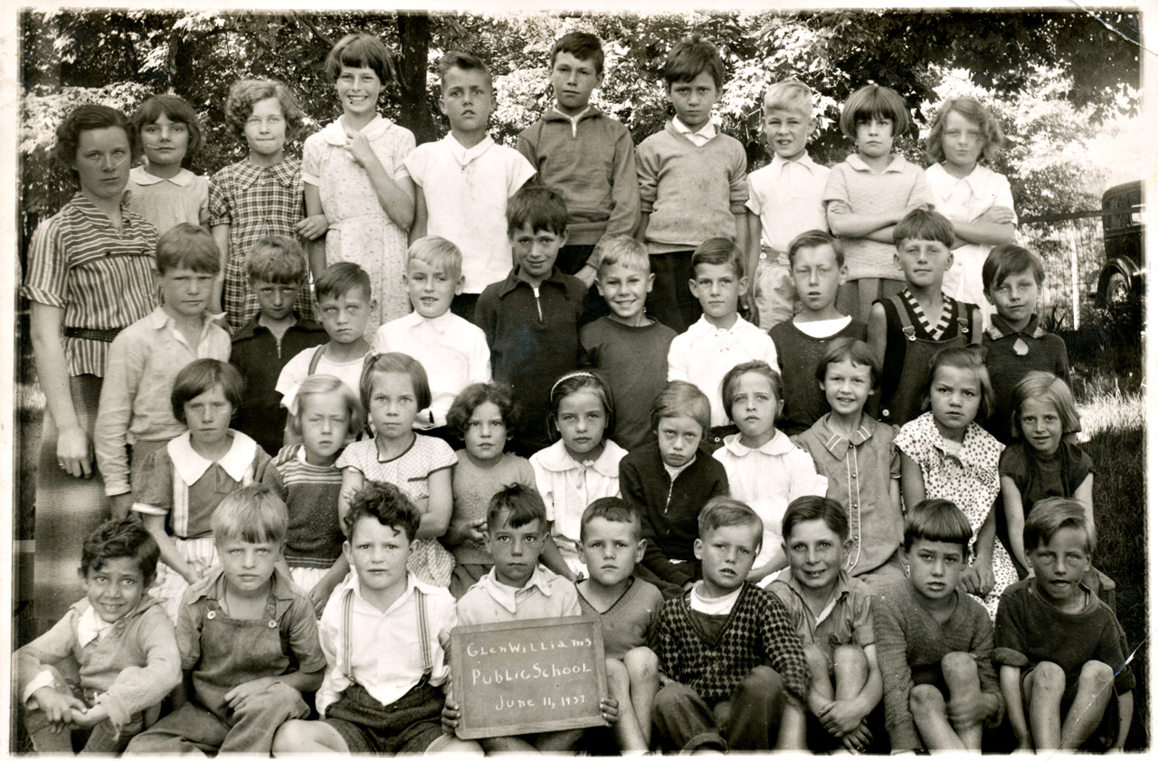 Glen Williams Public School Class Photo - June 11, 1937 Back row ~ Mary Appleyard, Gertie Cain, Ruth Norton, Mel Spence, Jack Inglis, Earl Vivian, Bob Hepburn, Helen Willett, Cathy Haines 3rd row ~ Harold Davison, John Hancock, Junior Beaumont, Victor Ostrander, Don Hancock, Robert Harold (Bob) Heaton, George Louth, Gilbert Preston, "Bus" Norton, Jim Norton 2nd row~ Norma McMurdo, Shirley Preston, Marguerite McMenemy, Peggy Willett, Betty Dickenson, Doris O'Hara, Barbara Dickenson, Mary O'Hara, Mary Davidson, Bernice Cain Front row~ Ronnie Vivian, Les Dickenson, Bob Addy, John Haines, Arley Gilbert, Ken Norton, Roy Norton, Jack Beaumont, Bob Norton Teacher ~ Margaret Leslie Glen Williams Public School, 15 Prince Street in Glen Williams, Ontario, Canada. Built 1873 The former Glen Williams Public School, a two-room brick school on Prince Street, which was built in 1873. This 2 storey brick building was built in 1873 as a new 1 storey, 2 room school house for students of Glen Williams and the surrounding countryside. The school was built on land deeded from mill owner Charles Williams, also in 1873, and was used for 75 years. In 1949 excavation for an addition to the school caused the collapse of one of the two wings of the building (the right side in this image) and the school had to be closed. In 1951 the building was sold and converted to a private residence with the high ceilings of the school rooms permitting conversion into a 2 storey residence. The outlines of the original tall school room windows can be clearly seen in the existing brick walls.